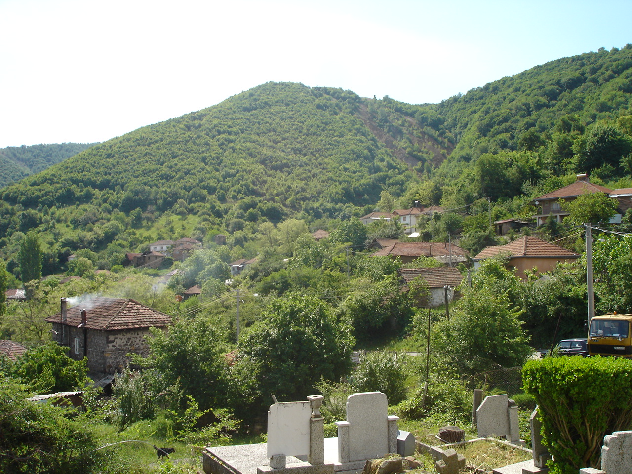 village of Prikovci, Macedonia